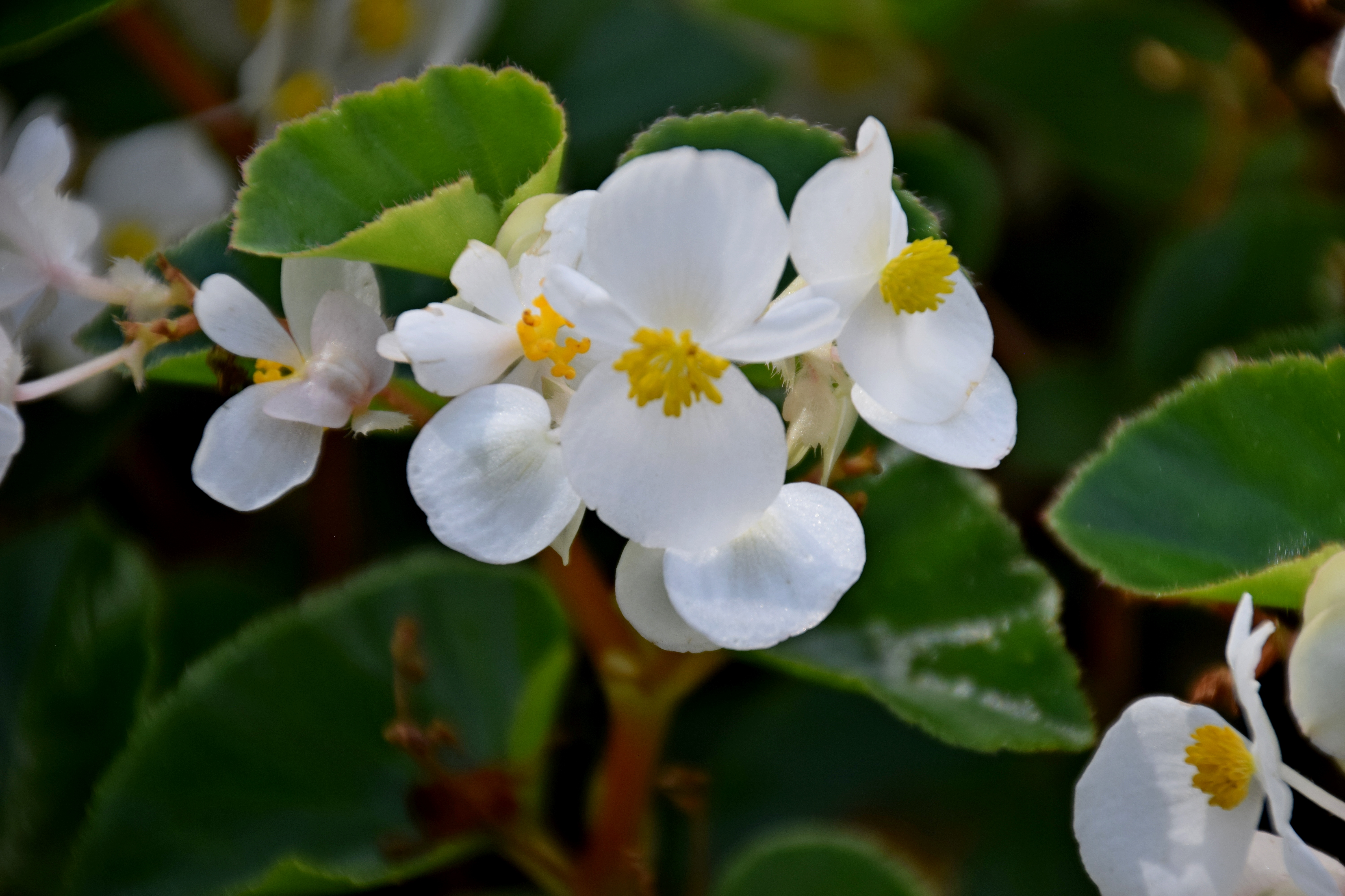 Begonia semperflorens 'Stara Blanc' in Jardin des Plantes de Toulouse